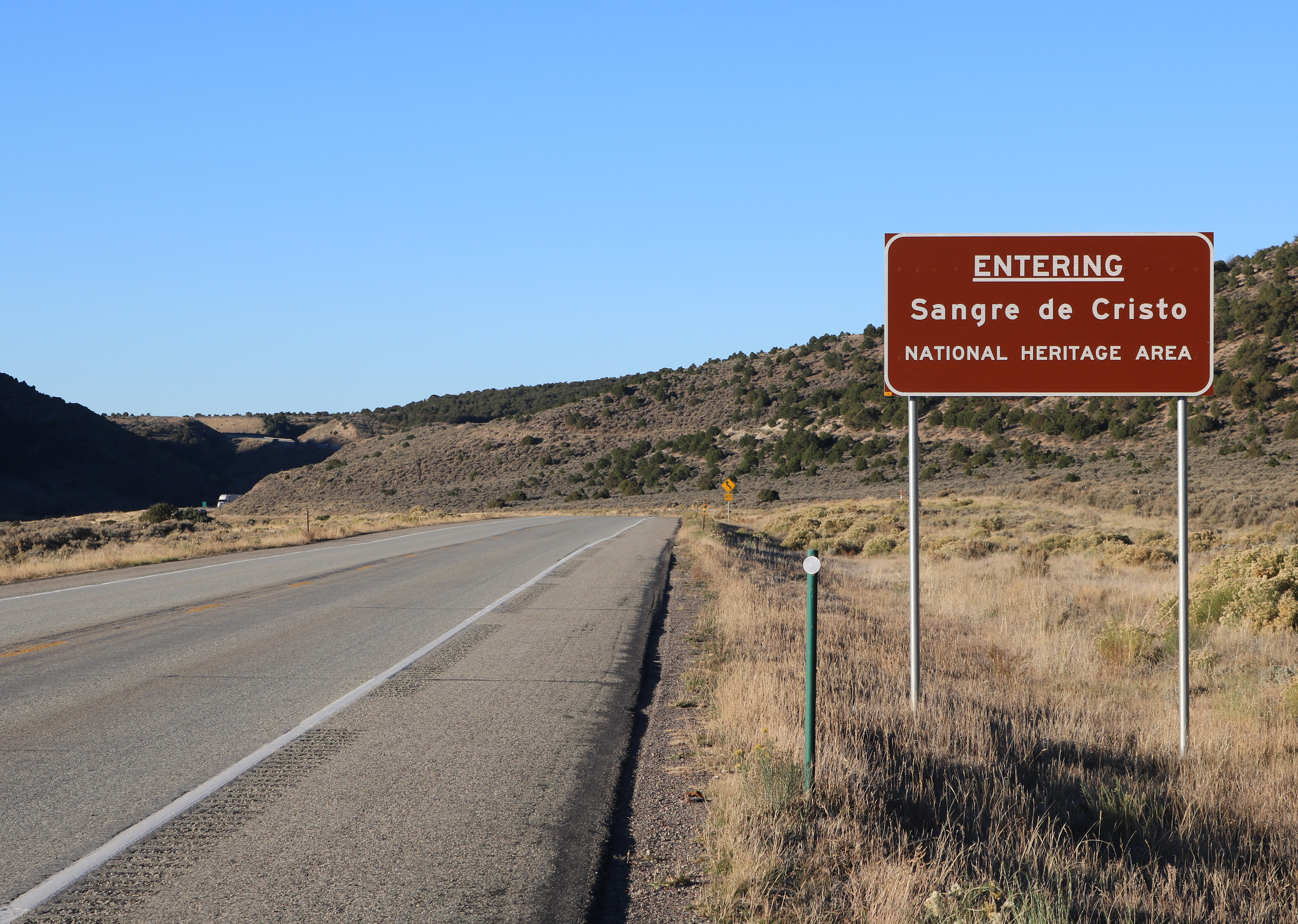 A sign marking the boundary of the Sangre de Cristo National Heritage Area, located along U.S. Highway 160 east of Fort Garland, Colorado.